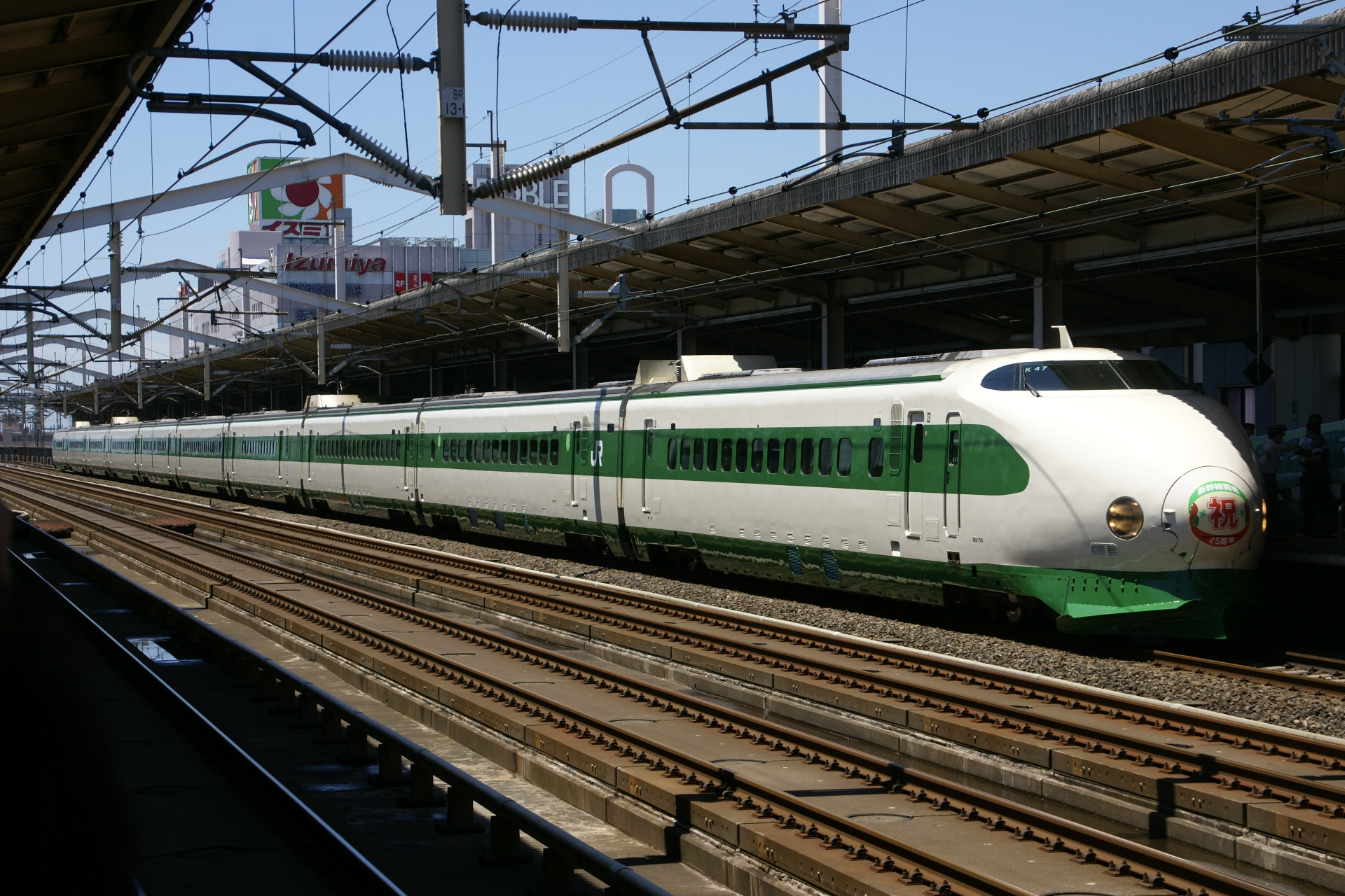 200 series shinkansen set K47 at Oyama Station on a special Yamabiko 931 service from Omiya marking the 25th anniversary of the opening of the Tohoku Shinkansen, 23 June 2007